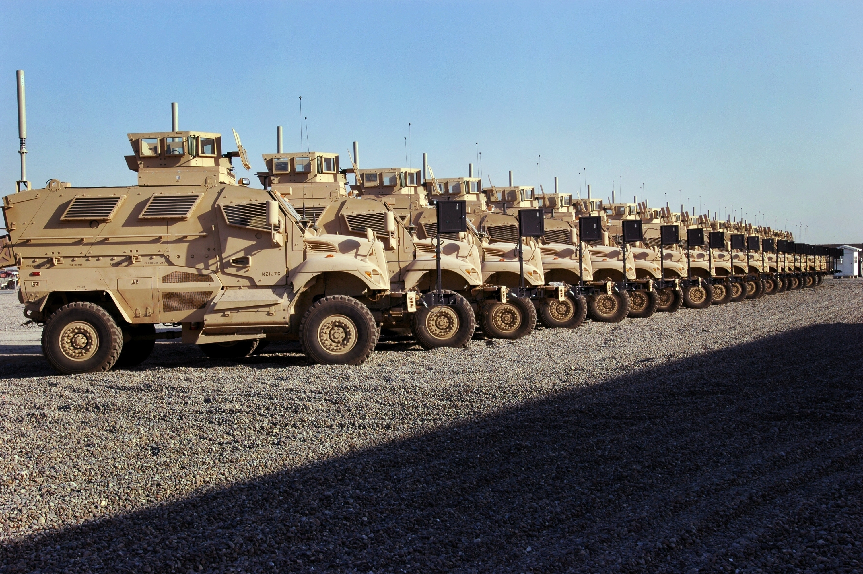 The first shipments of Mine Resistant Ambush Protected vehicles arrived at Camp Liberty in western Baghdad and are being fielded to units who operate in areas with the highest threat levels. These are the first of an estimated 7,000 MRAP vehicles expected in theater by early summer. (U.S. Army photo by Sgt. Mark B. Matthews, 27th Public Affairs Detachment) Sourced from: [1]